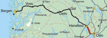 Map of Bergensbanen shortened by Ringeriksbanen